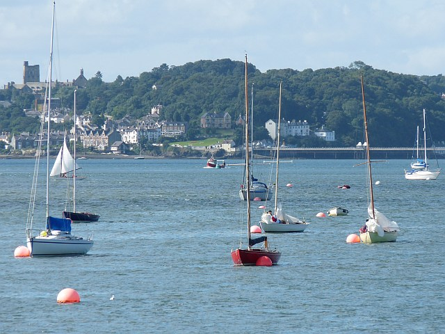 Boats moored on the Menai Strait. Taken from the end of Beaumaris Pier 1456795 looking across towards Bangor Bangor University can be seen on the left with Bangor Pier on the right.